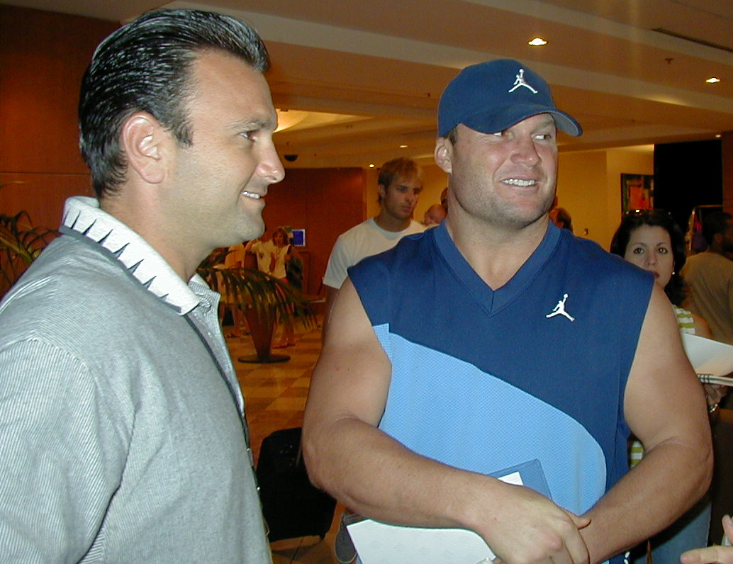 If used somewhere other than Wikipedia, Nelson, by name.